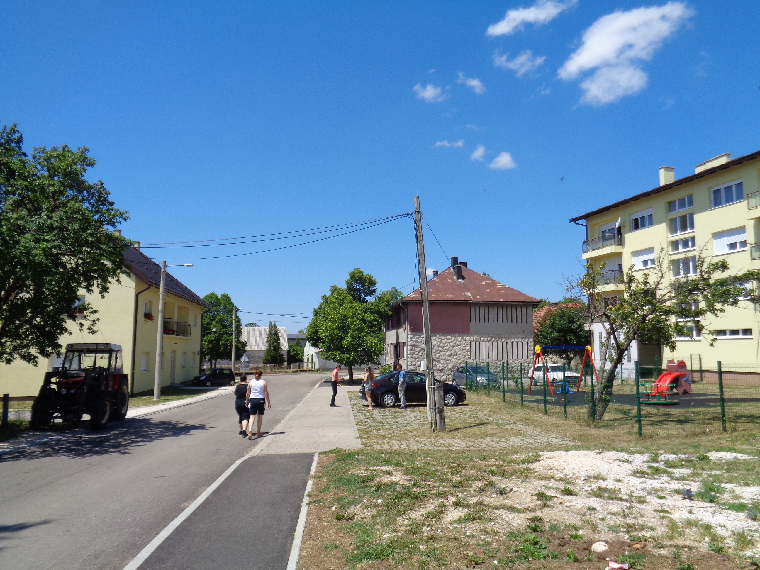 Udbina Municipality, Lika-Senj County, Croatia (3.)